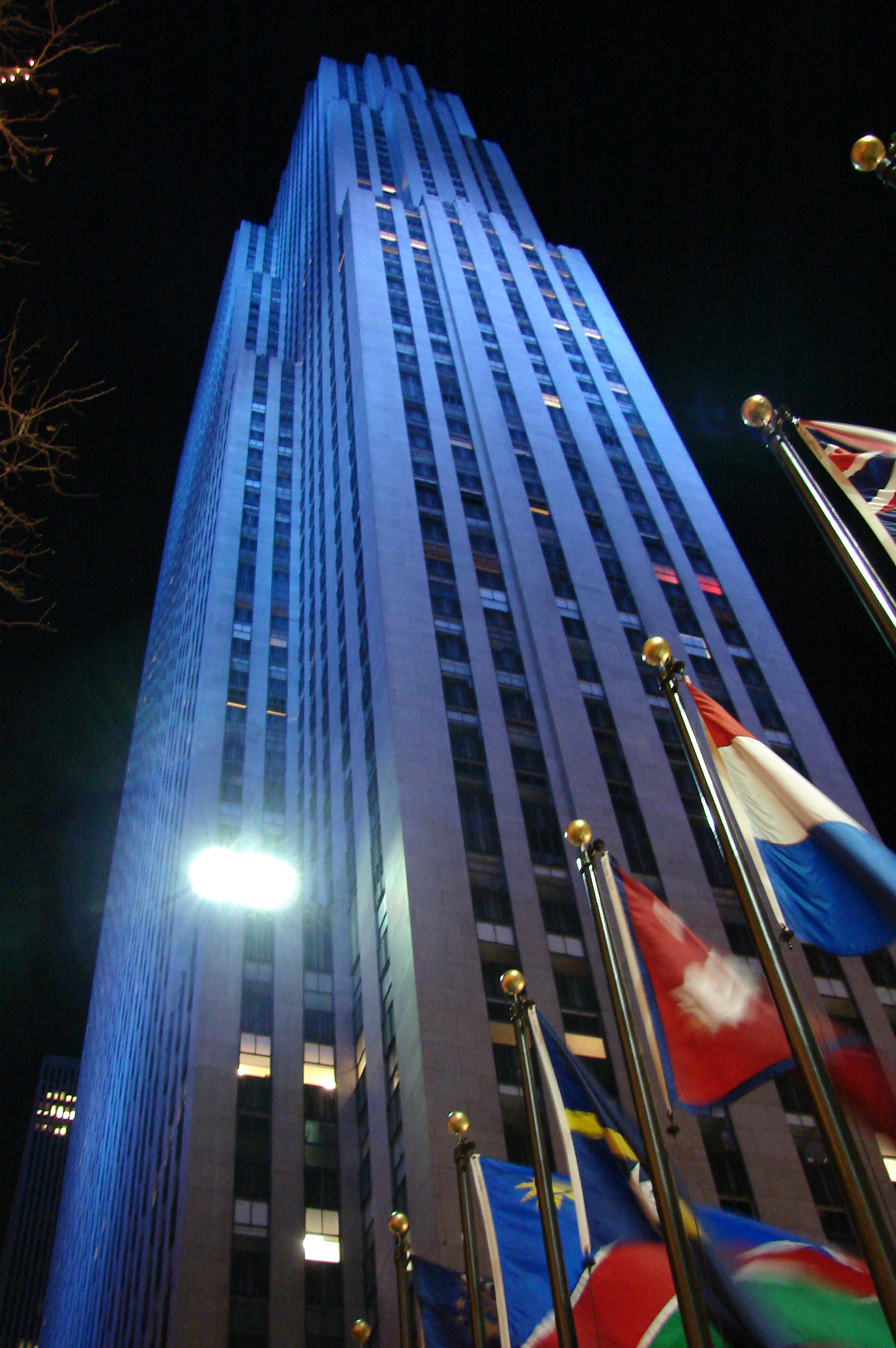 The GE Building ("30 Rock") at Rockefeller Center in New York City.